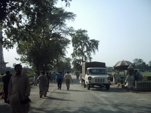 Entering Iqbal park. Picture taken by Pale blue dot on June 10, 2004.